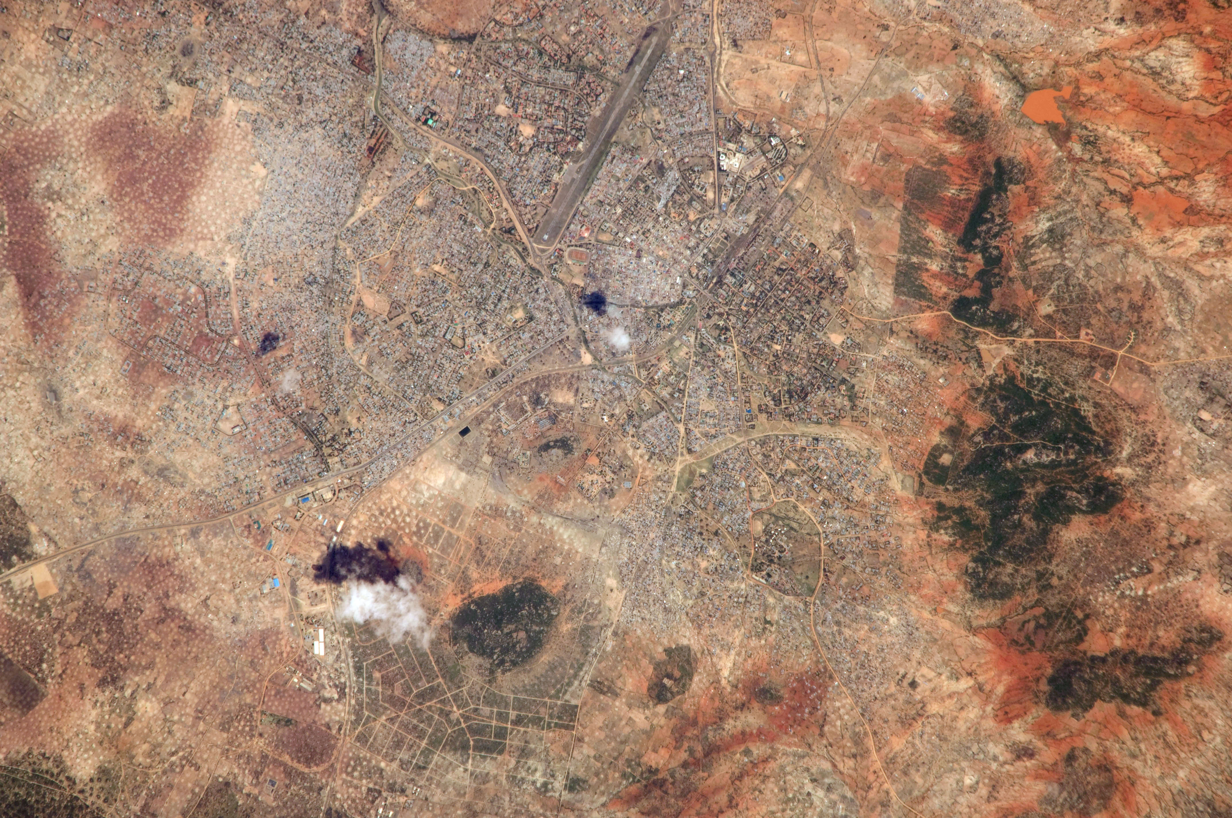 Astronaut Photo of Dodoma, Tanzania taken from the International Space Station (ISS) during Expedition 22 on December 19, 2009.